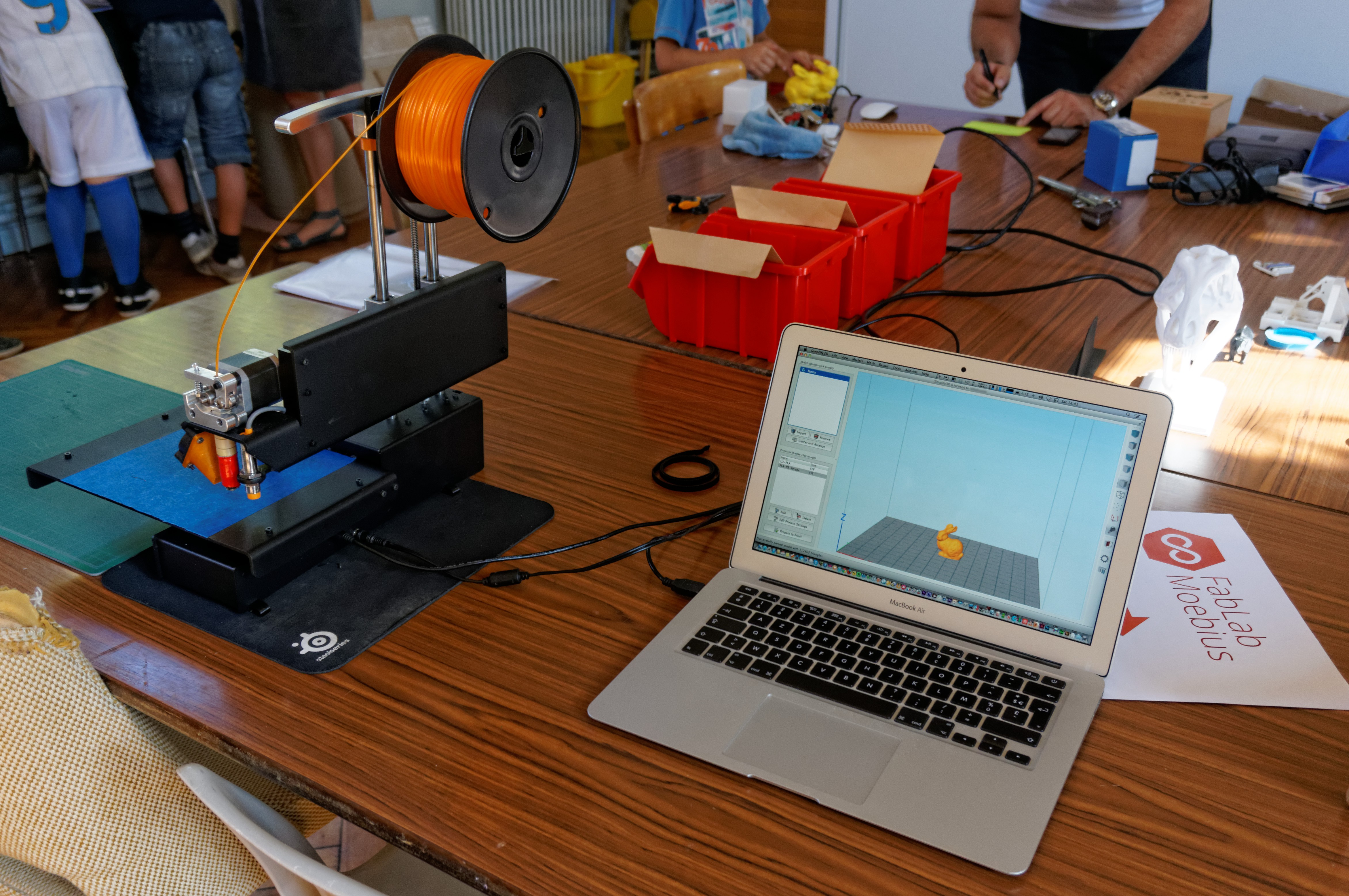 3D printer "Printrbot Simple Metal" hooked to a computer running the Simplify 3D program. Picture taken at the Moebius fablab in Cély-en-Bière.